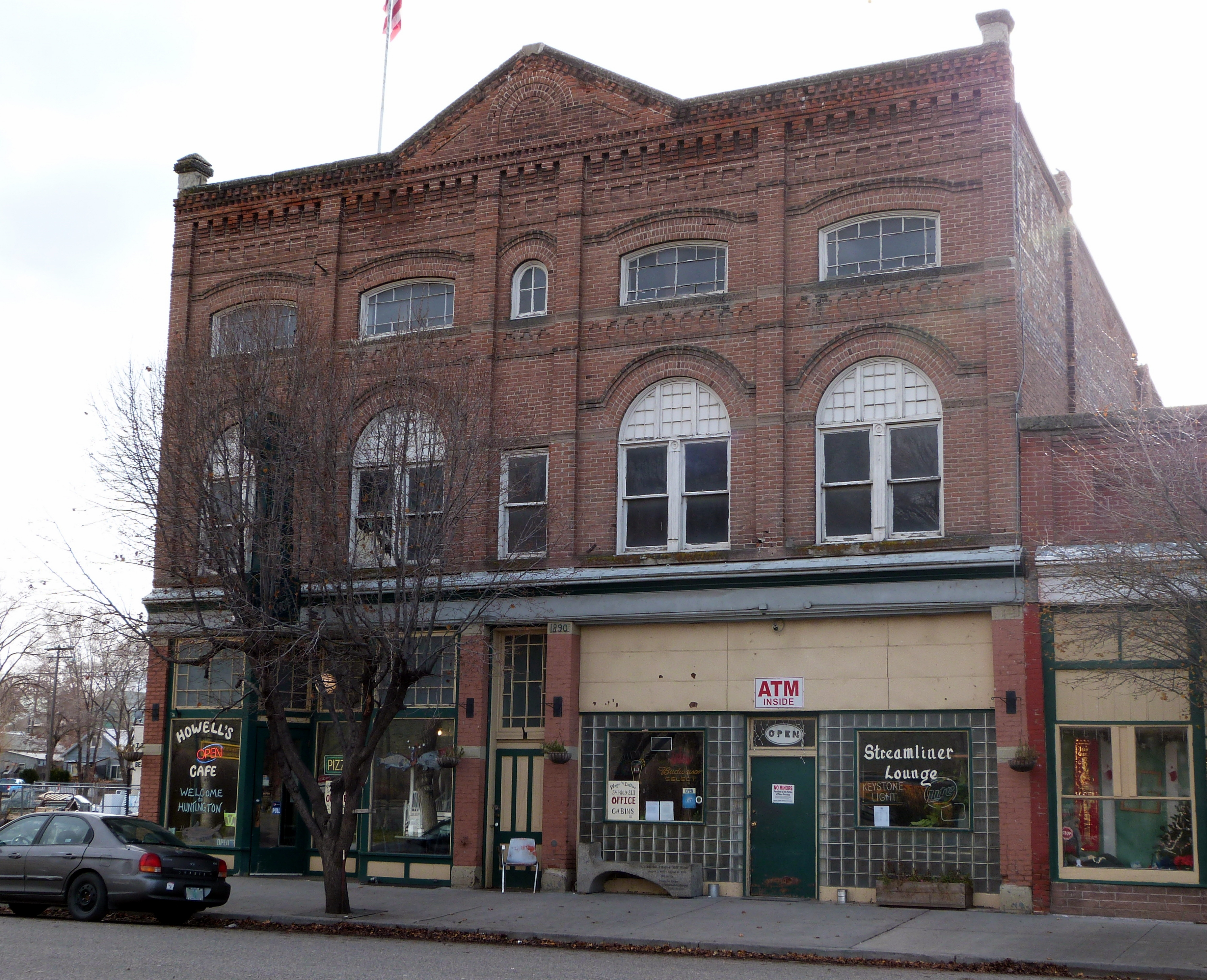 The historic Oregon Commercial Company Building (built 1890), located at 40-50 East Washington Street in Huntington, Oregon, United States, is listed on the US National Register of Historic Places.